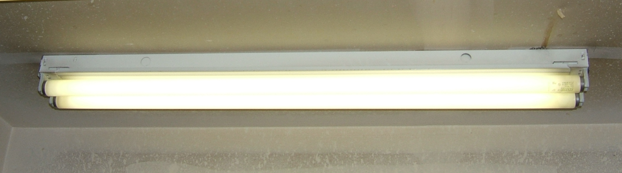 A two tube fluorescent light strip in a ceiling. This is one of the most common types of residential light fixture in the US. It takes two F48T12, 4 foot long, 1.5 in dia. rapid start fluorescent tubes. It has a magnetic ballast and consumes roughly 80 watts. Fixtures of this type are being replaced in new construction with the more efficient T8 fixtures.